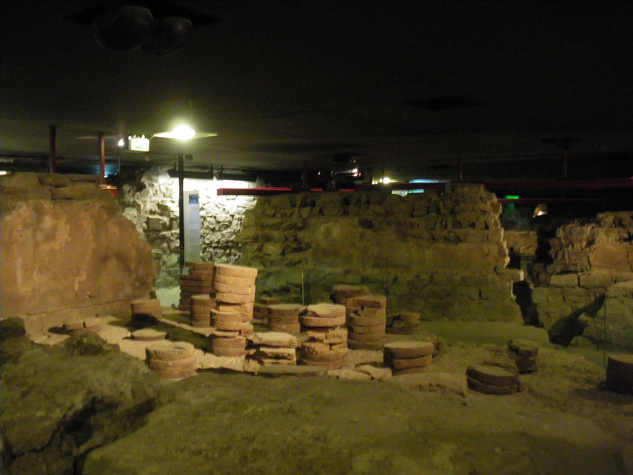 The Roman hypocaust of the Archeoforum Museum in Liège.